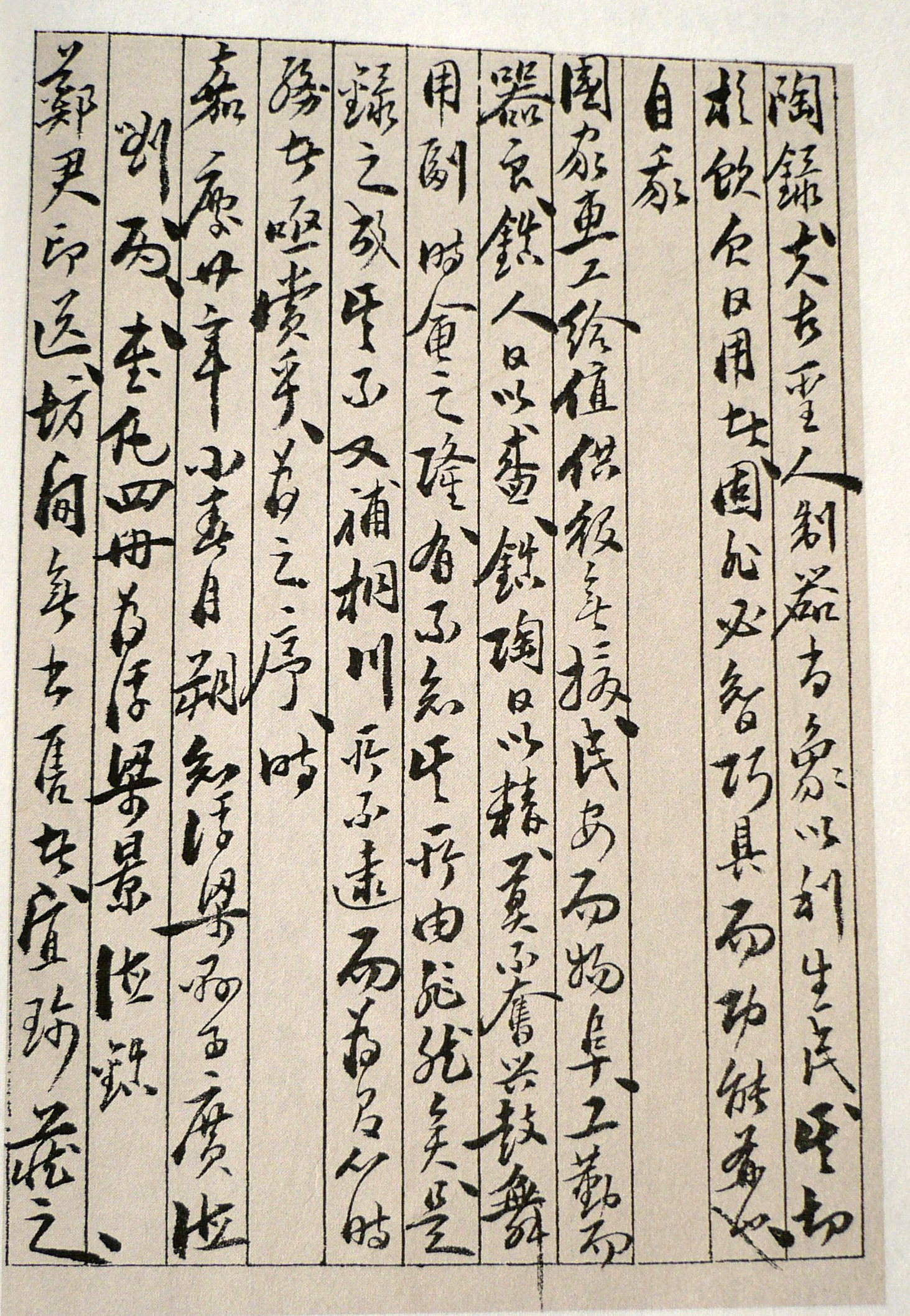 fascimile of 1815 page of Jingdezhen Porcelain